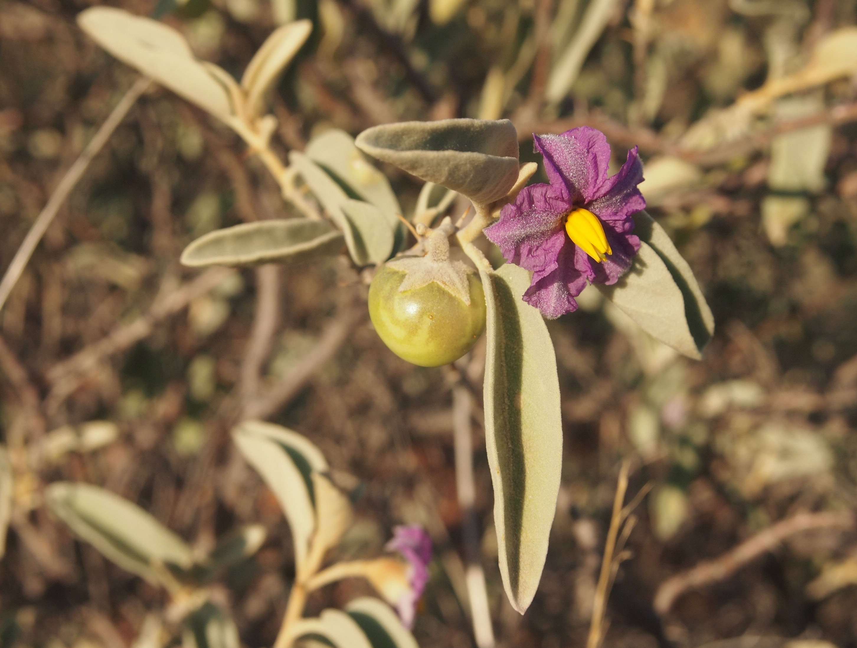 Solanum lithophilum flower and fruit